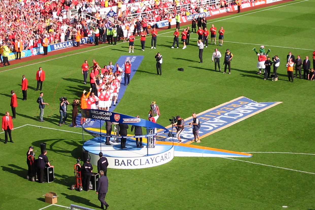 Arsenal captain Patrick Vieira presenting the Premier League trophy at Highbury after beating Leicester City 2-1 to win the league unbeaten